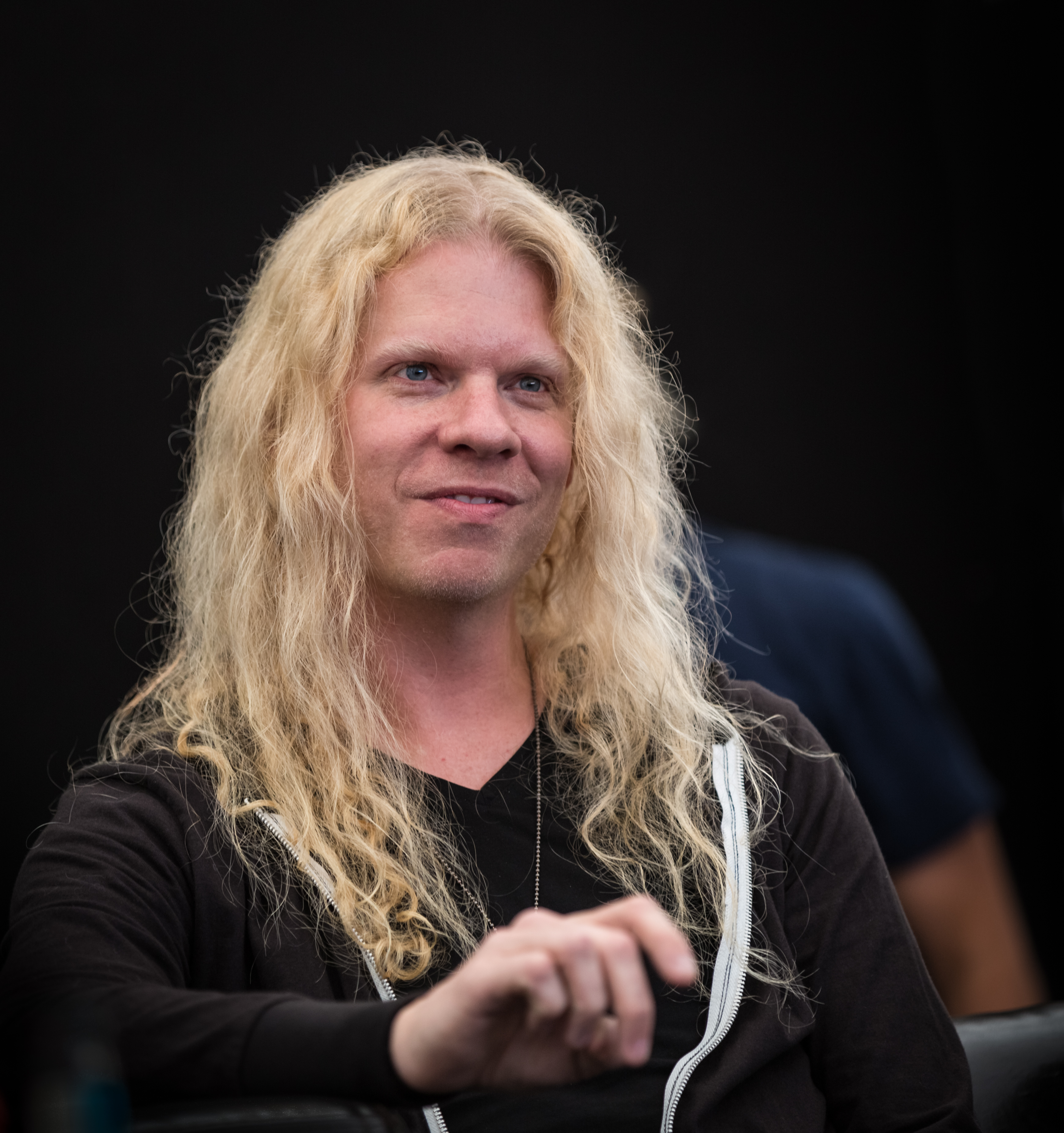 Arch Enemy - Wacken Open Air 2016